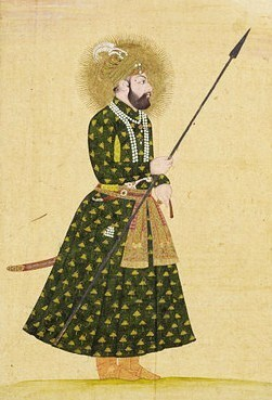 Jahandar Shah of India.